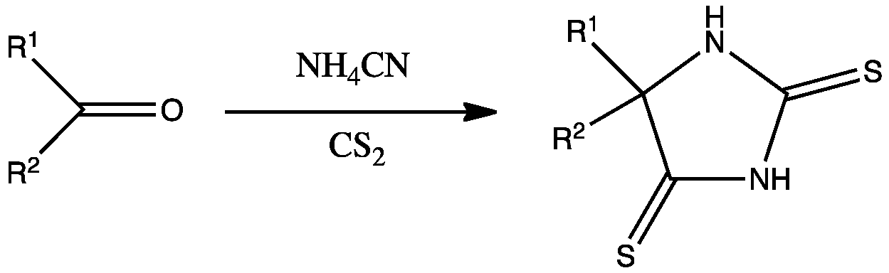 This is a variation on the Bucherer-Bergs reaction that uses carbon disulfide instead of carbon dioxide.